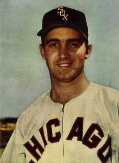 Chicago White Sox pitcher Billy Pierce's 1955 Bowman Gum baseball card. Cropped from original image.